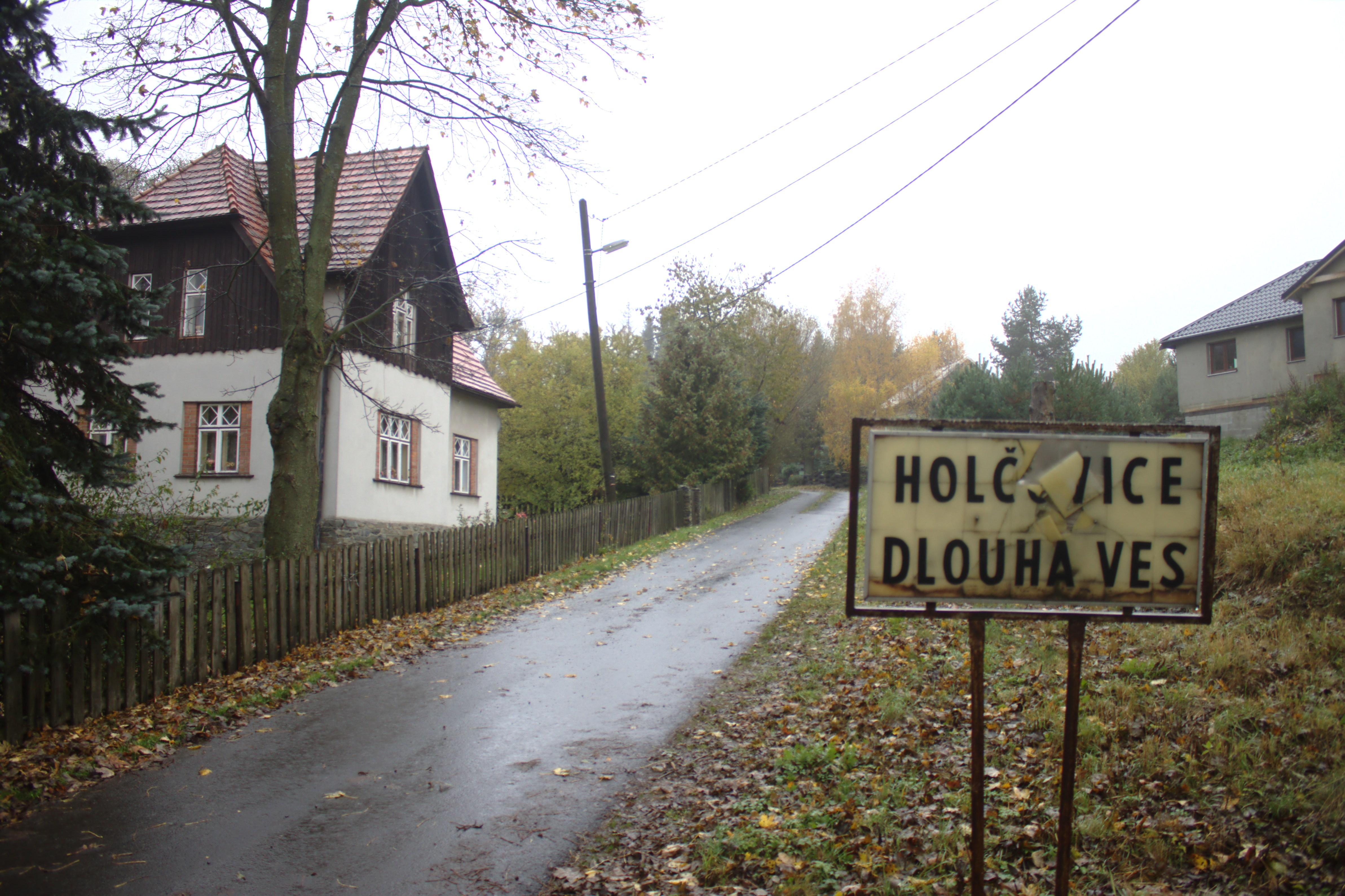 A fall view of the Dlouhá Ves village, CZ